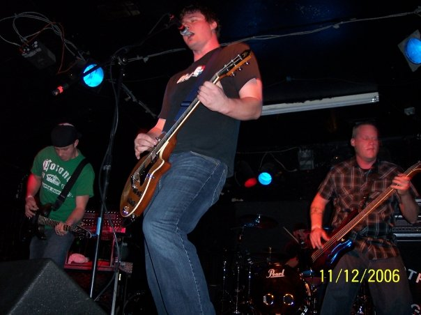 Another Single Day at the Boardwalk in Sacramento, my own photo, release into public domain.